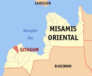 Map of the Misamis Oriental showing the location of Gitagum